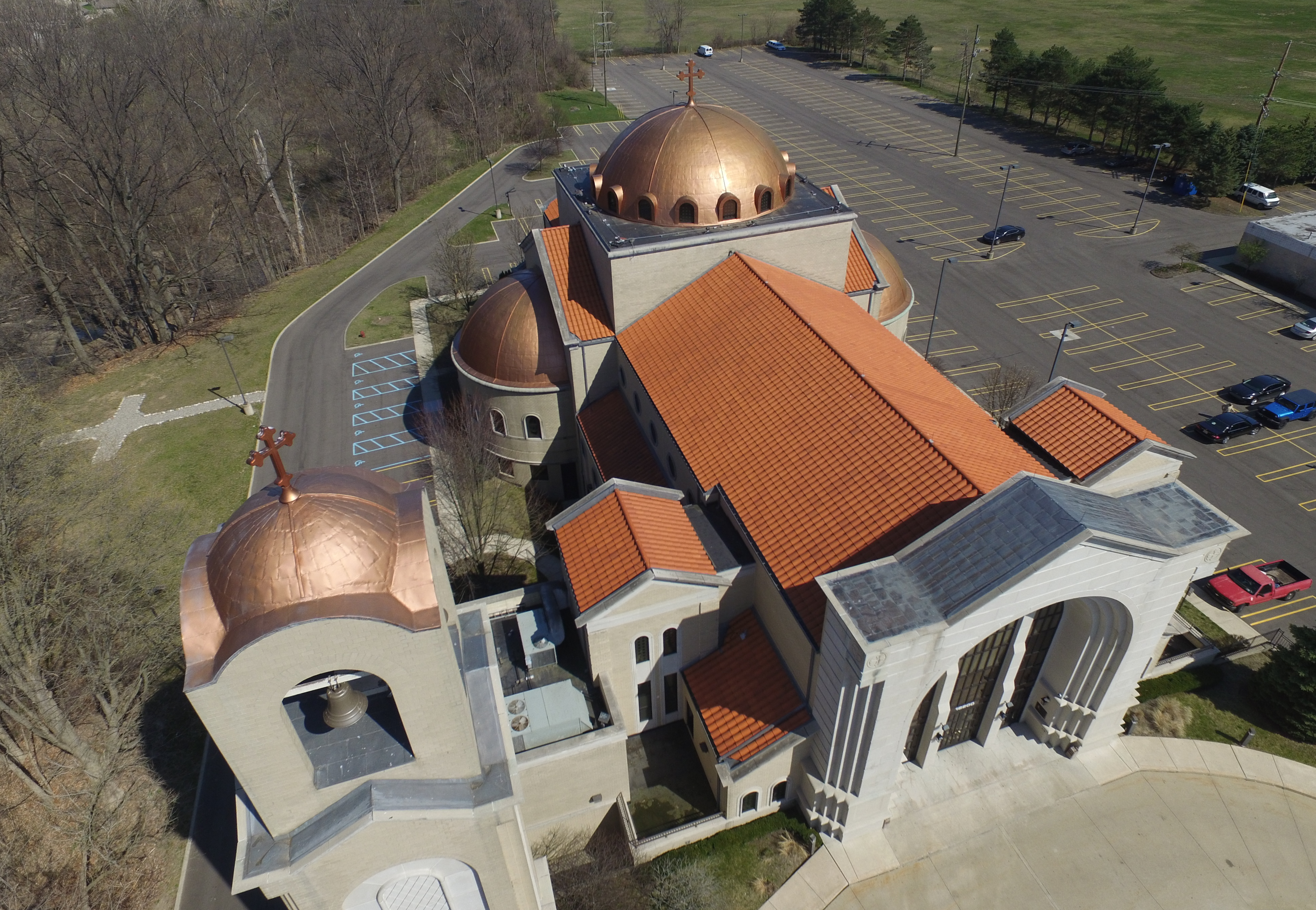 Saint Mary's Antiochian Orthodox Christian Church Livonia Michigan - photo by Arial (